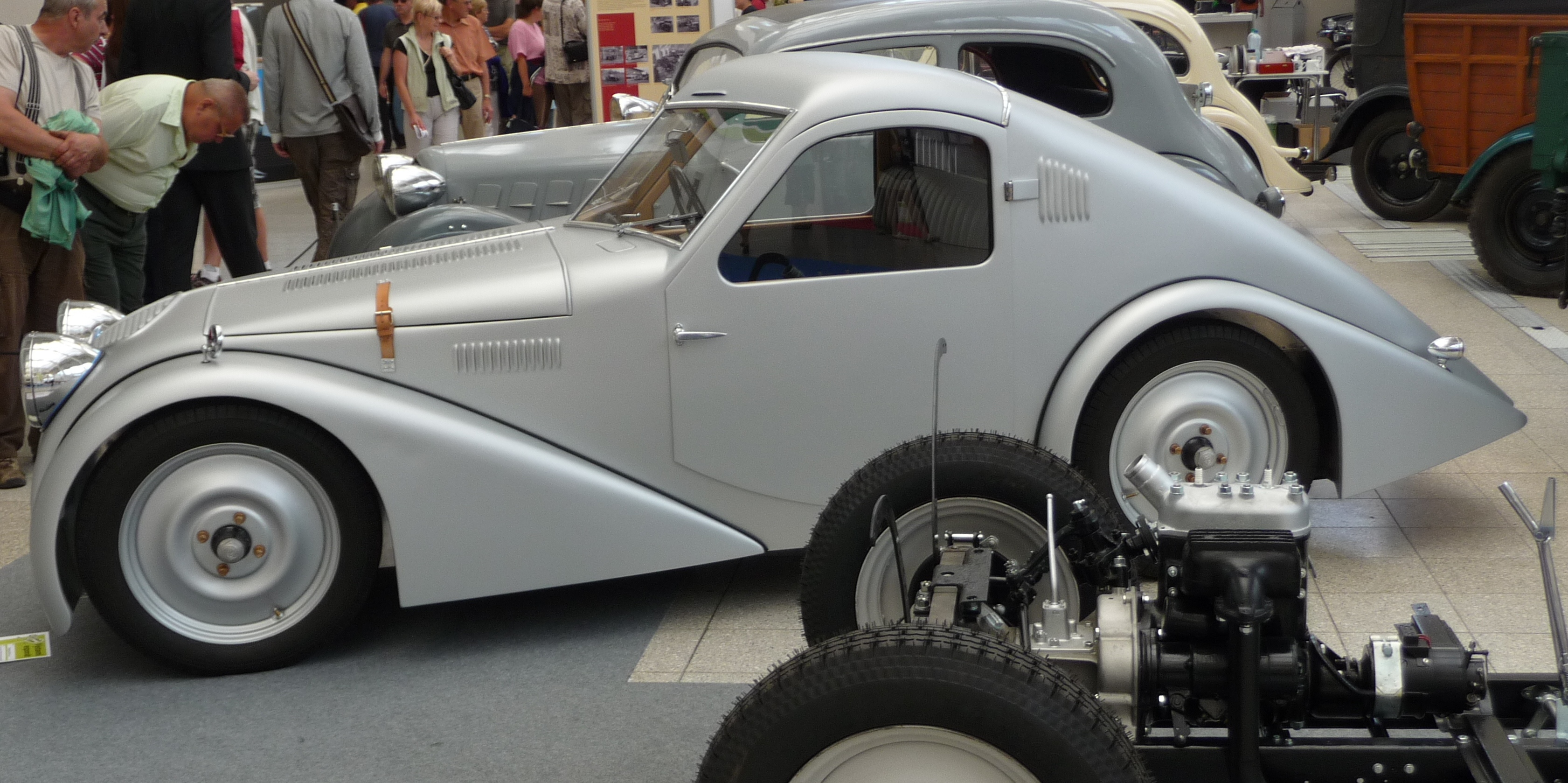 Zbrojovka Z 4 "1000 mil Československých" rallye special with aluminium body, year 1934, Classic Show Brno 2011, The Brno Exhibition Grounds -10 -5 -3 -2 ◄ ► +2 +3 +5 +10